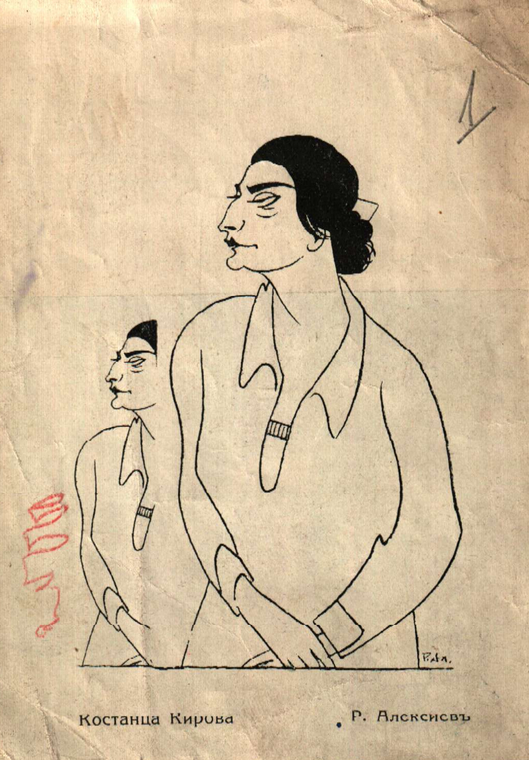 Konstantsa Kirova's caricature by Rayko Aleksiev